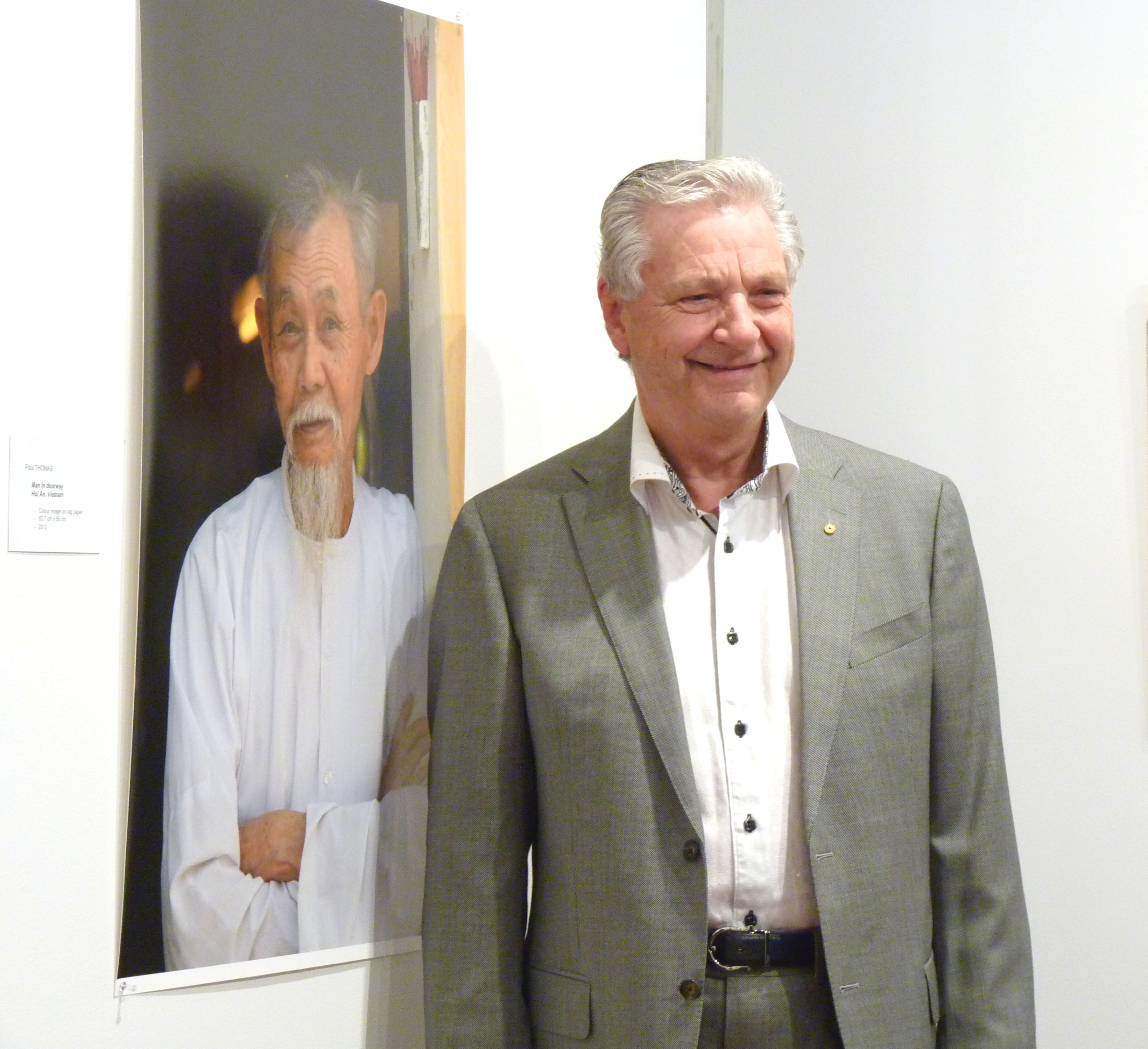 Photograph of Professor Paul Thomas AM at the Opening of his Photographic Exhibition - Images of Vietnam